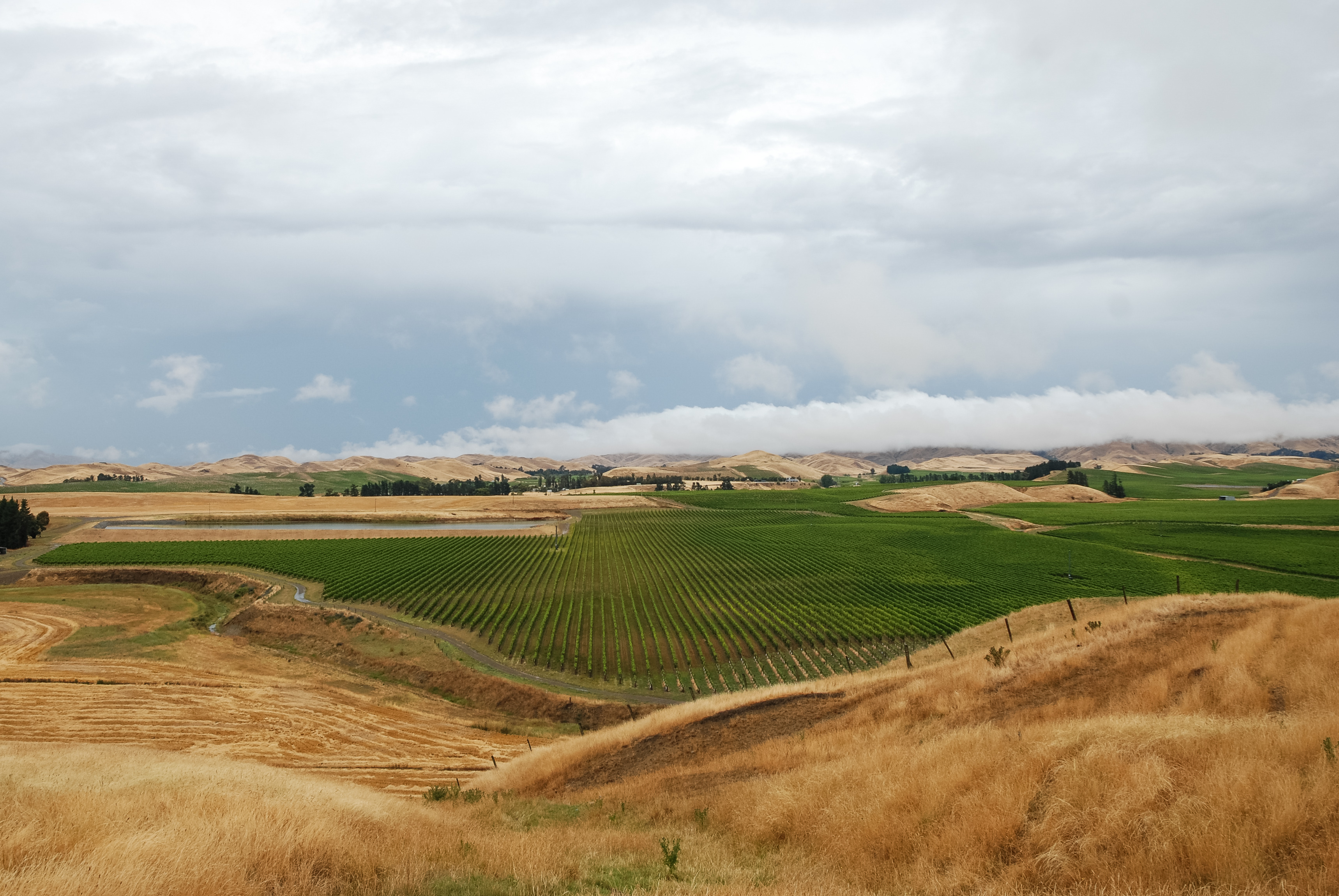 Vineyards in the Marlborough Region, New Zealand, close to the town of Seddon